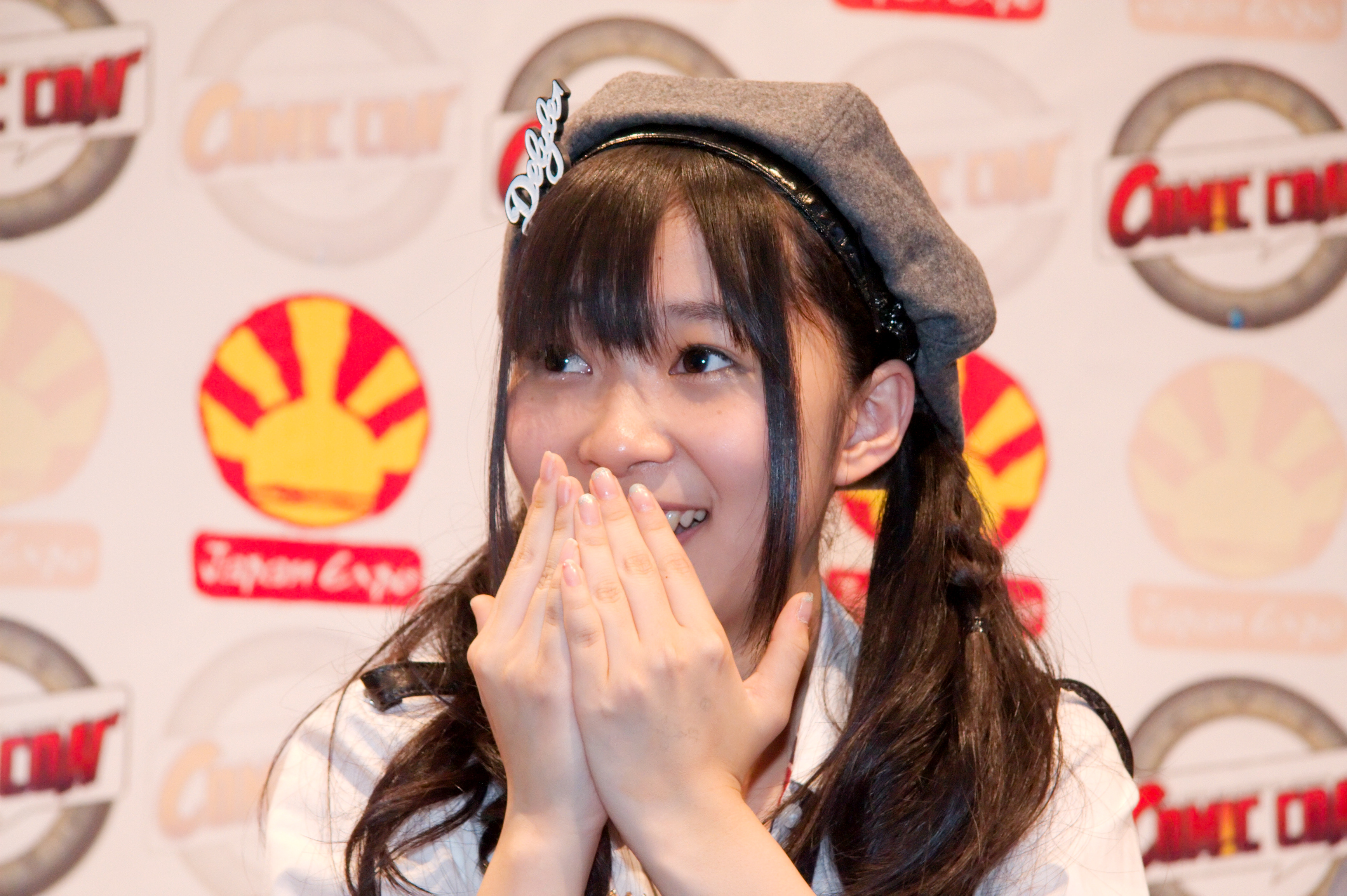 Rino Sashihara of AKB48 during lecture at Japan Expo 2009 (Paris, France).